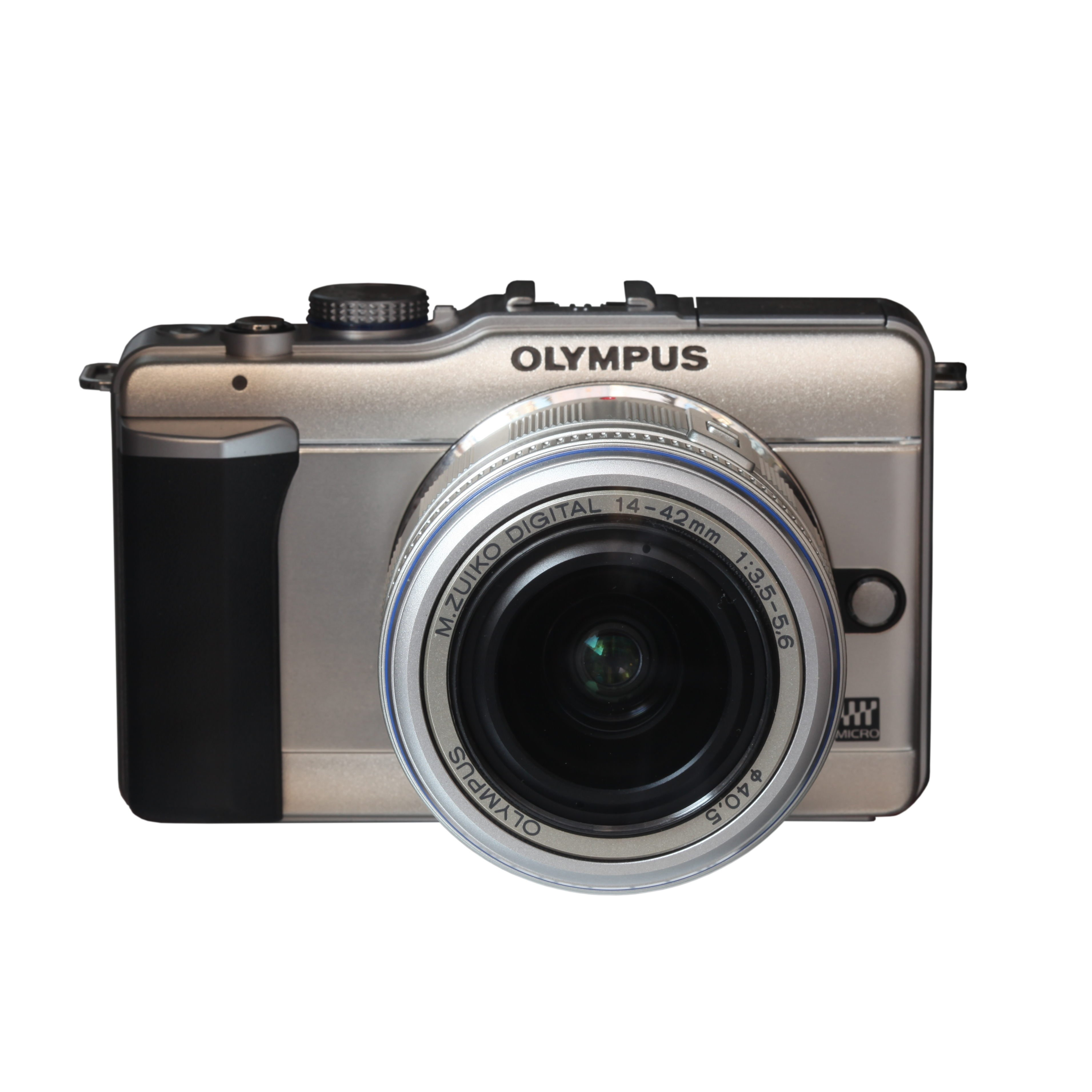 Olympus PEN E-PL1